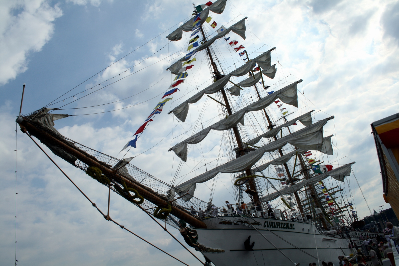 "Cuauhtemoc" ship. "The Tall Ships' Races 2007" in Szczecin (Poland).